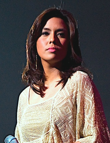 Nikki Gil performing at the Star Magic Concert, Ontario, CA last June 27, 2009.